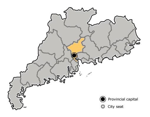 The sub-provincial city of Guangzhou is highlighted on this map of Guangdong province, People's Republic of China.